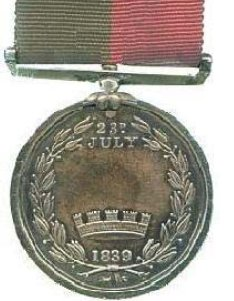 From an example in my collection